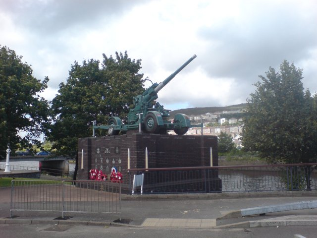 The Monument to the Air Defence of Swansea 1939-1945 The monument commemorates the valiant work performed by Swansea's anti-aircraft batteries and also serves as a reminder to the horrific destruction that occurred in the town of Swansea during the Second World War, especially on the night of 21st February 1941 when Swansea was specifically targeted by many hundreds of German planes. It's a well known fact that the gun batteries were able to bring down very few planes, mainly due to the ferocity of the attacks and because the technology simply wasn't able to pinpoint aircraft then.